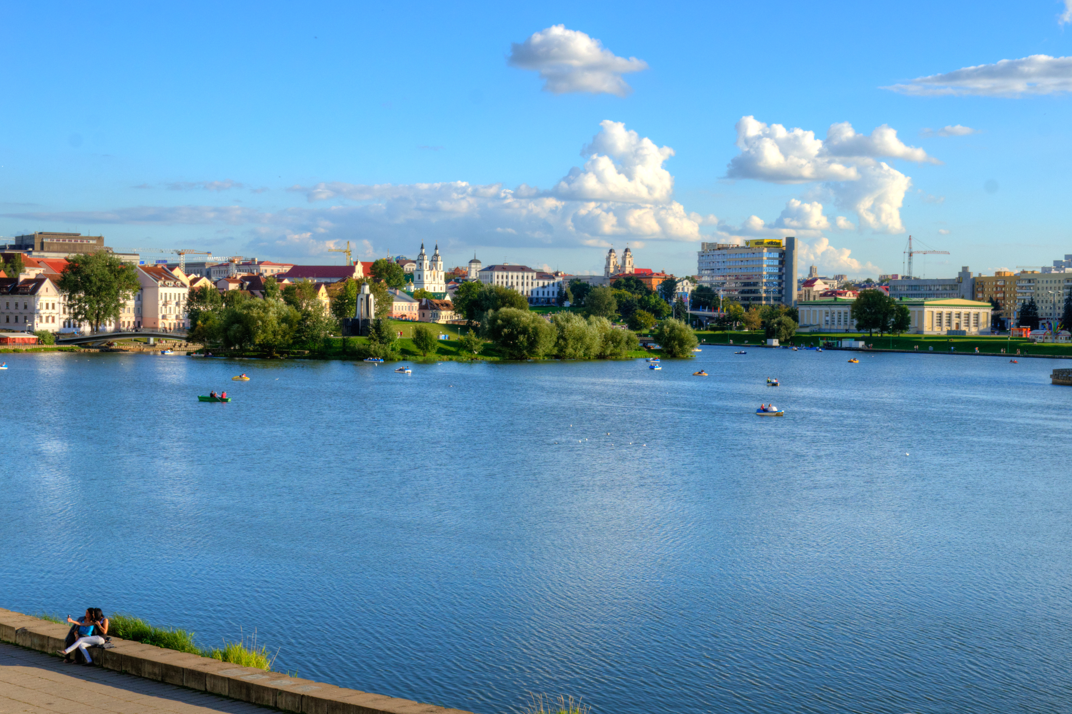 View of Upper Town of Minsk, with Svislach River and all main churches.